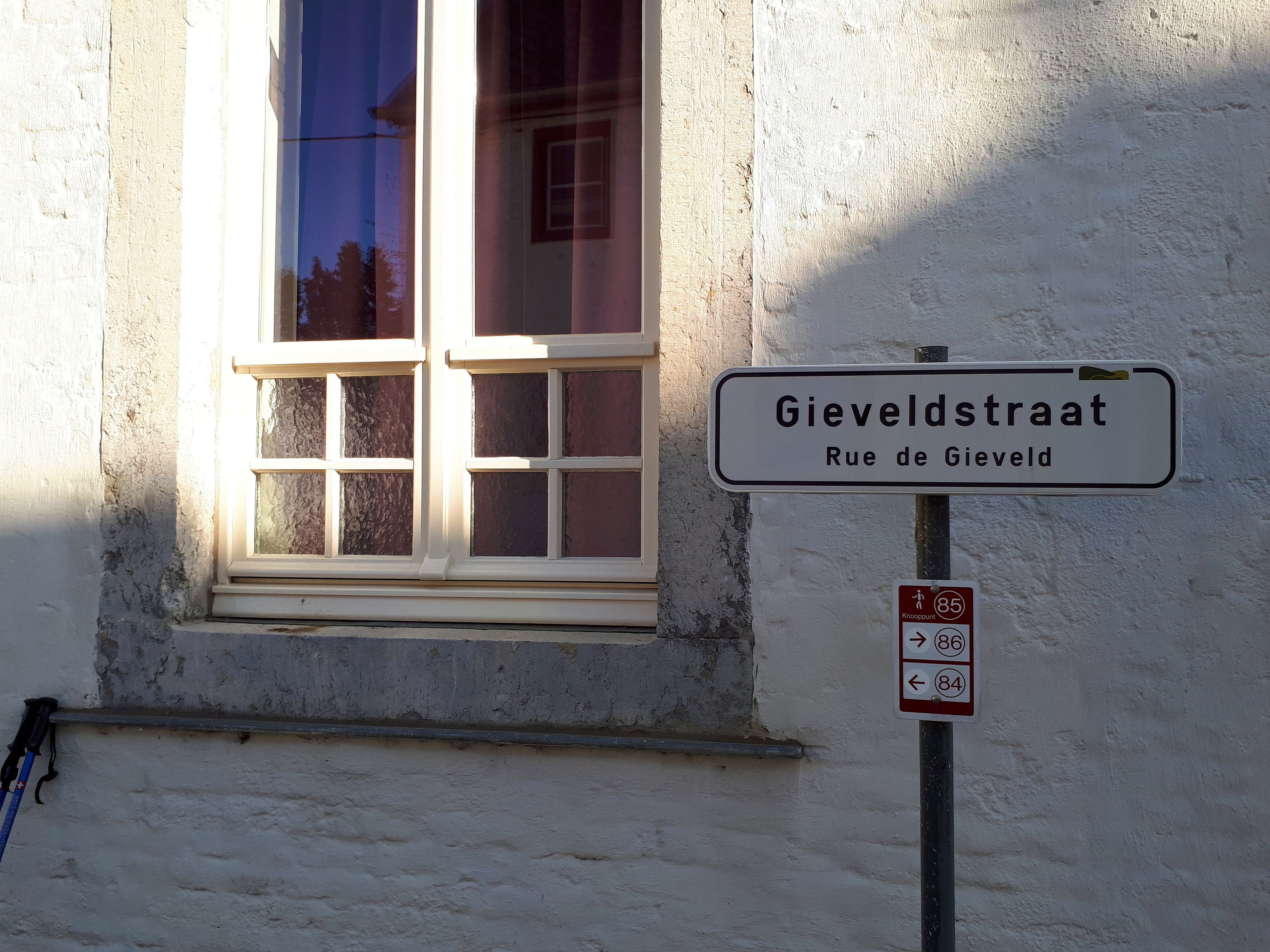 Gieveldstraat running from Teuven-Dorp all the way to the dutch border